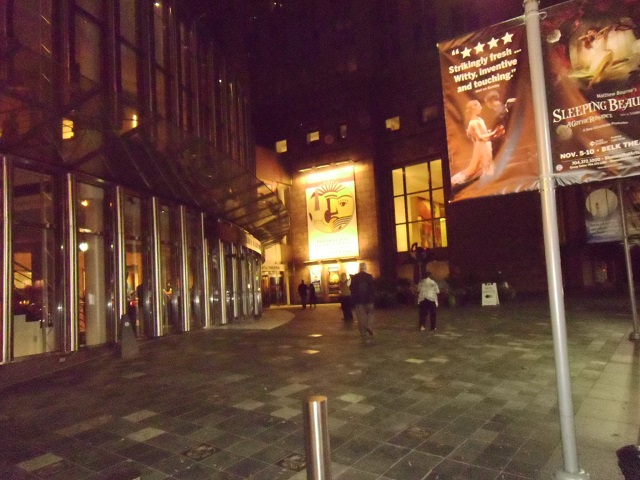 Outside the Blumenthal Performing Arts Center in Charlotte, North Carolina